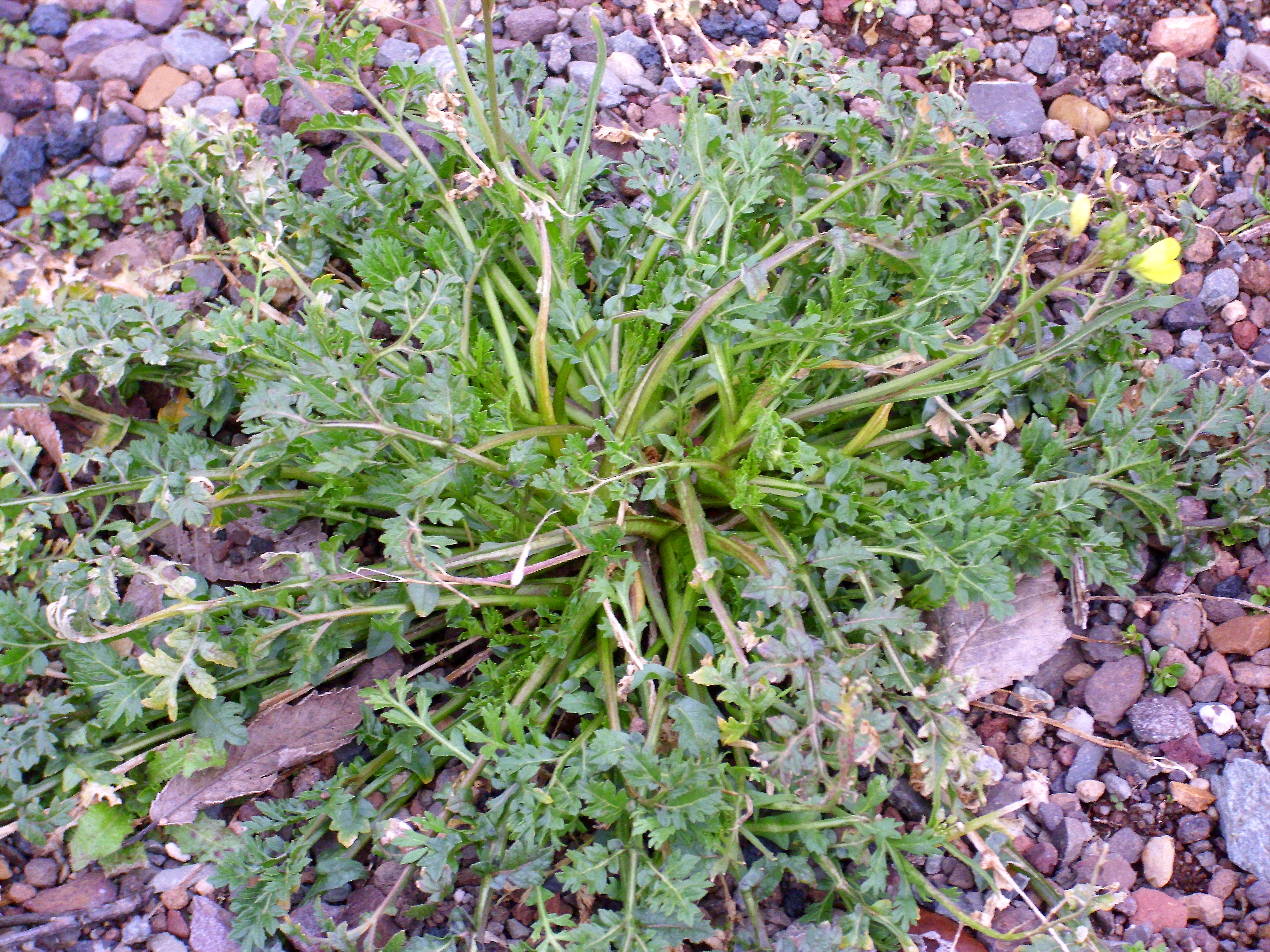 Brassica repanda subsp. blancoana habit, Dehesa Boyal de Puertollano, Spain